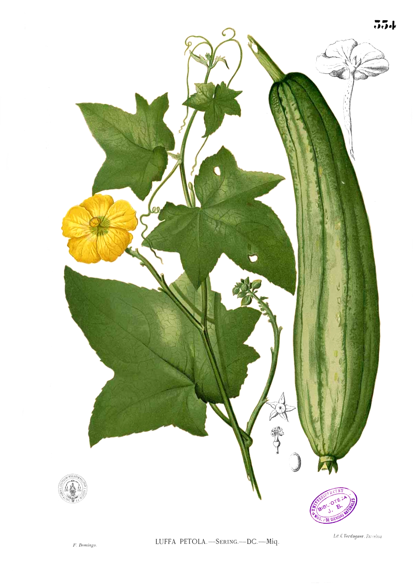 Plate from book